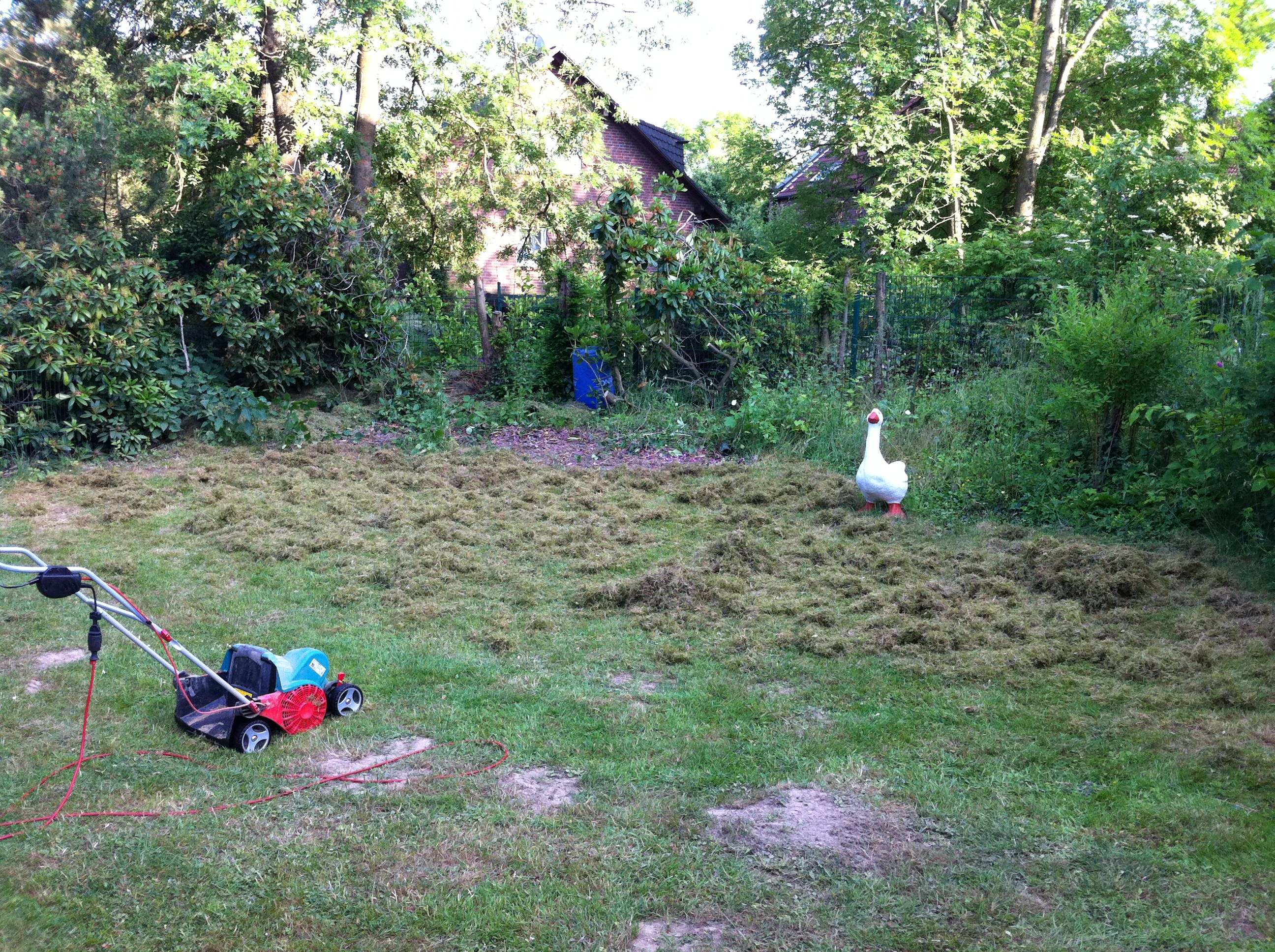 An electric lawn scarifier in a garden, presumably in Germany (the goose is an decoration element)